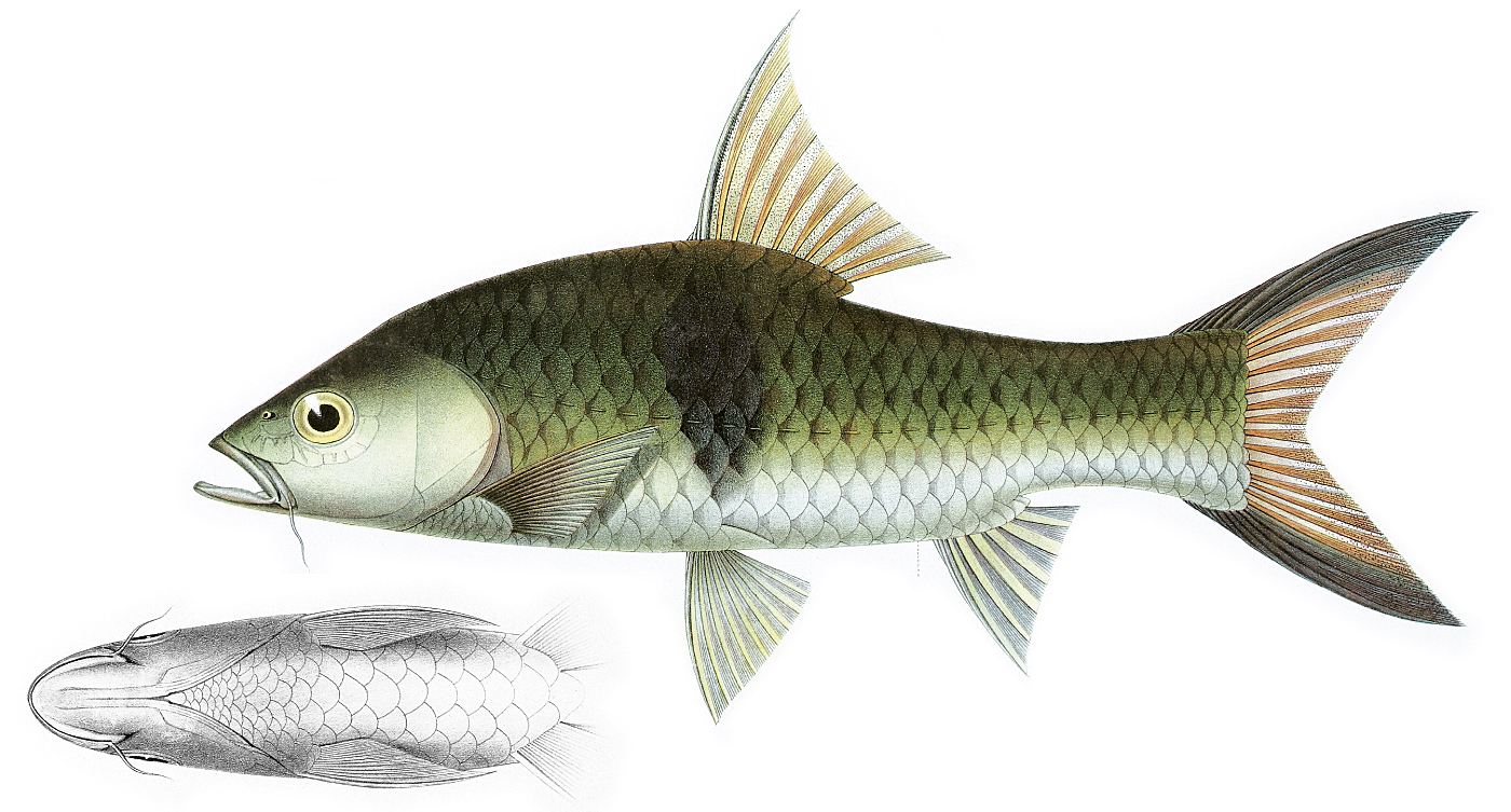 Hampala macrolepidota